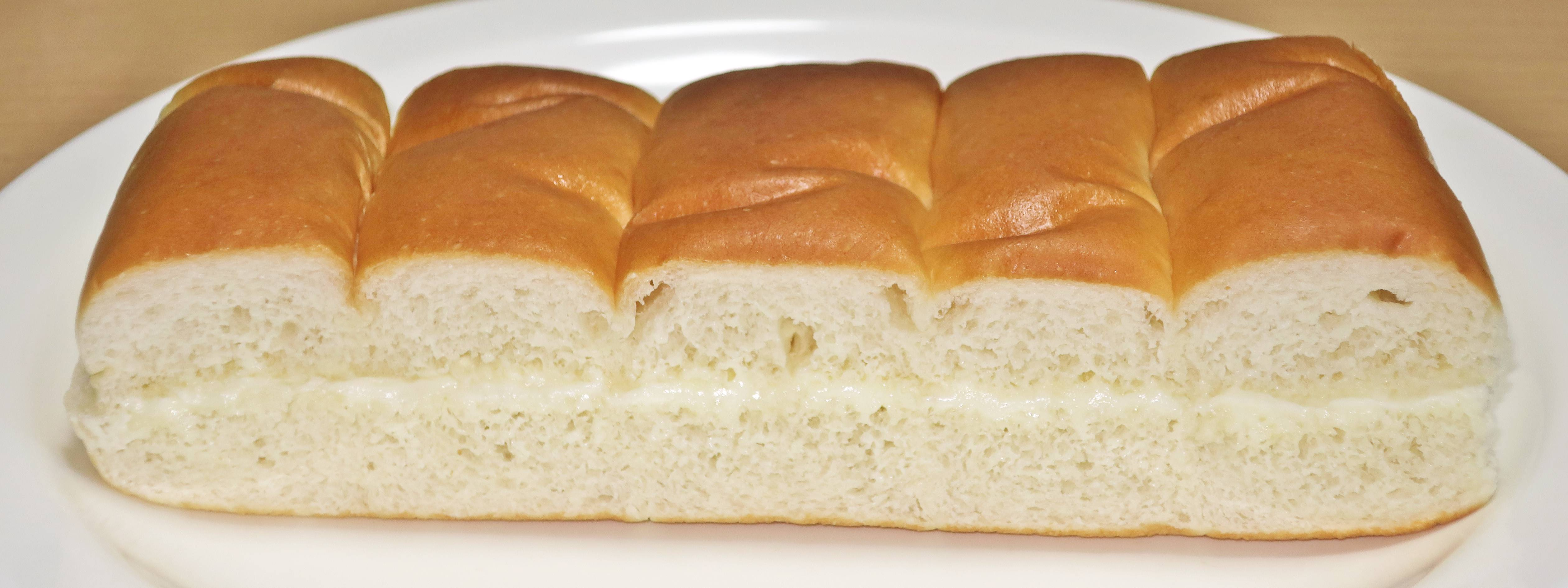 Pasco Shinshu milk bread.